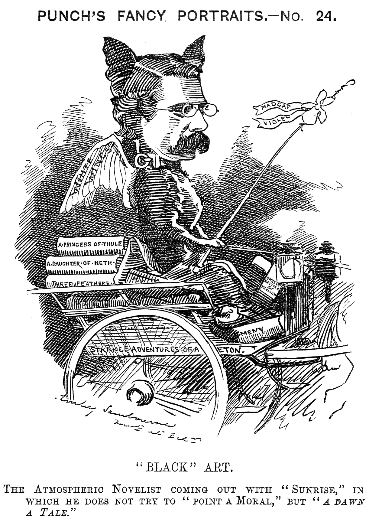 William Black in Punch.